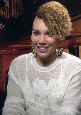 Emmy Raver-Lampman in a 2019 MTV interview